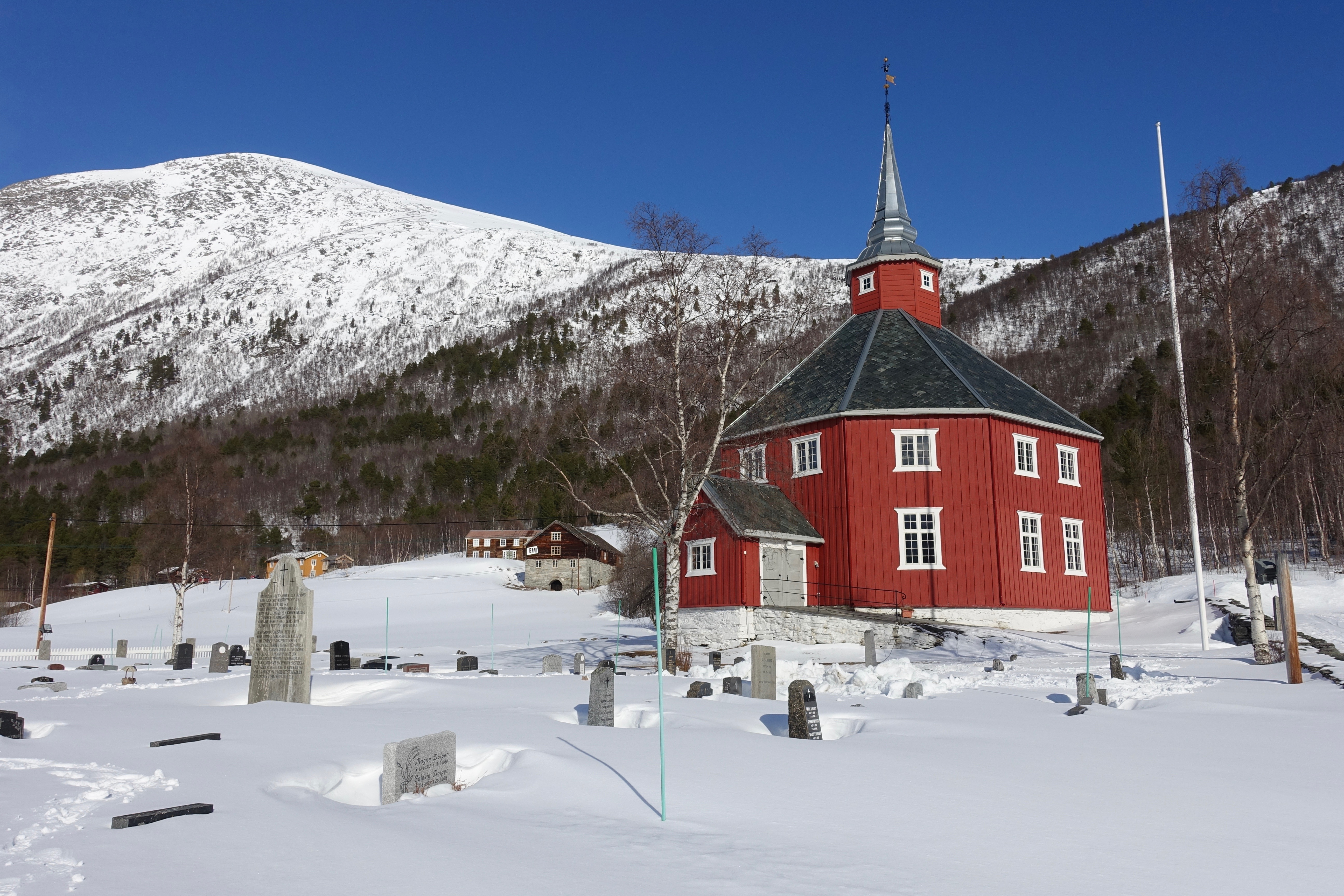 Lønset kirke/kyrkje, octagonal wooden church built 1863, in Oppdal, Trøndelag, Norway. Snowy graveyard, blue sky. Photo 2019-03-19.